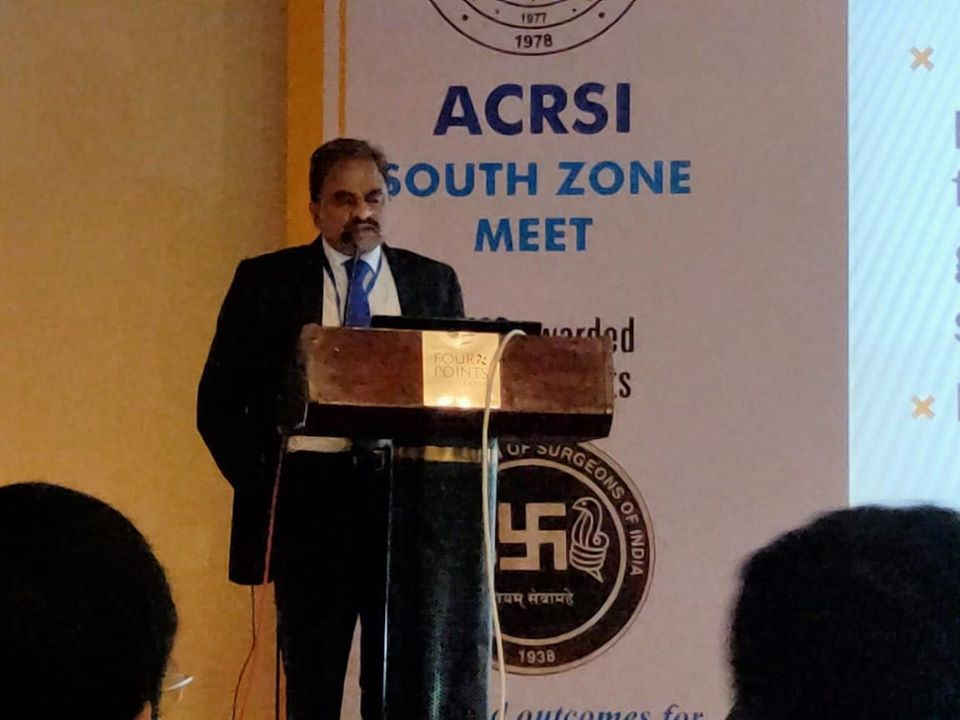 Dr.T.Narayana Rao delivering a lecture at CME on Proctology organised in Visakhapatnam on 16th February,2020.